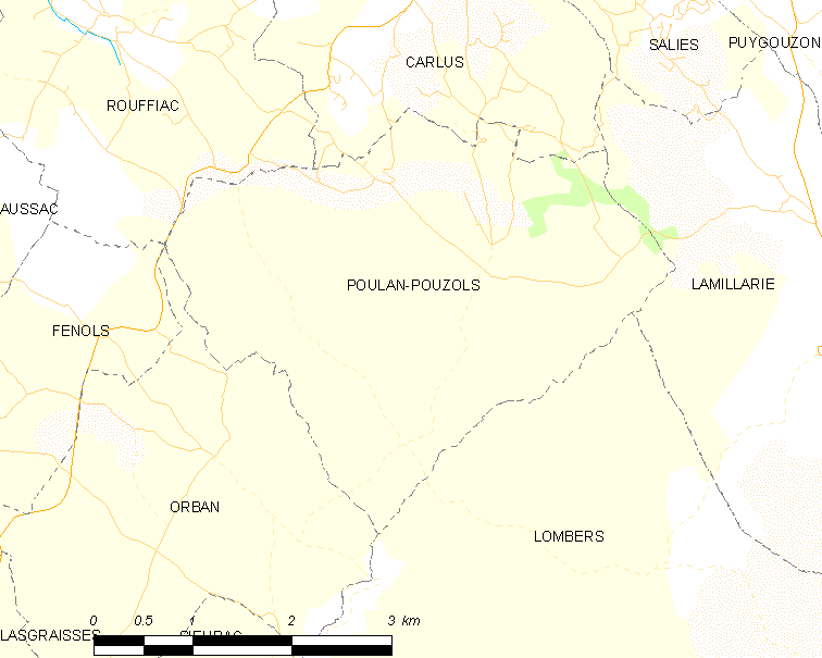 Map of French municipality Poulan-Pouzols